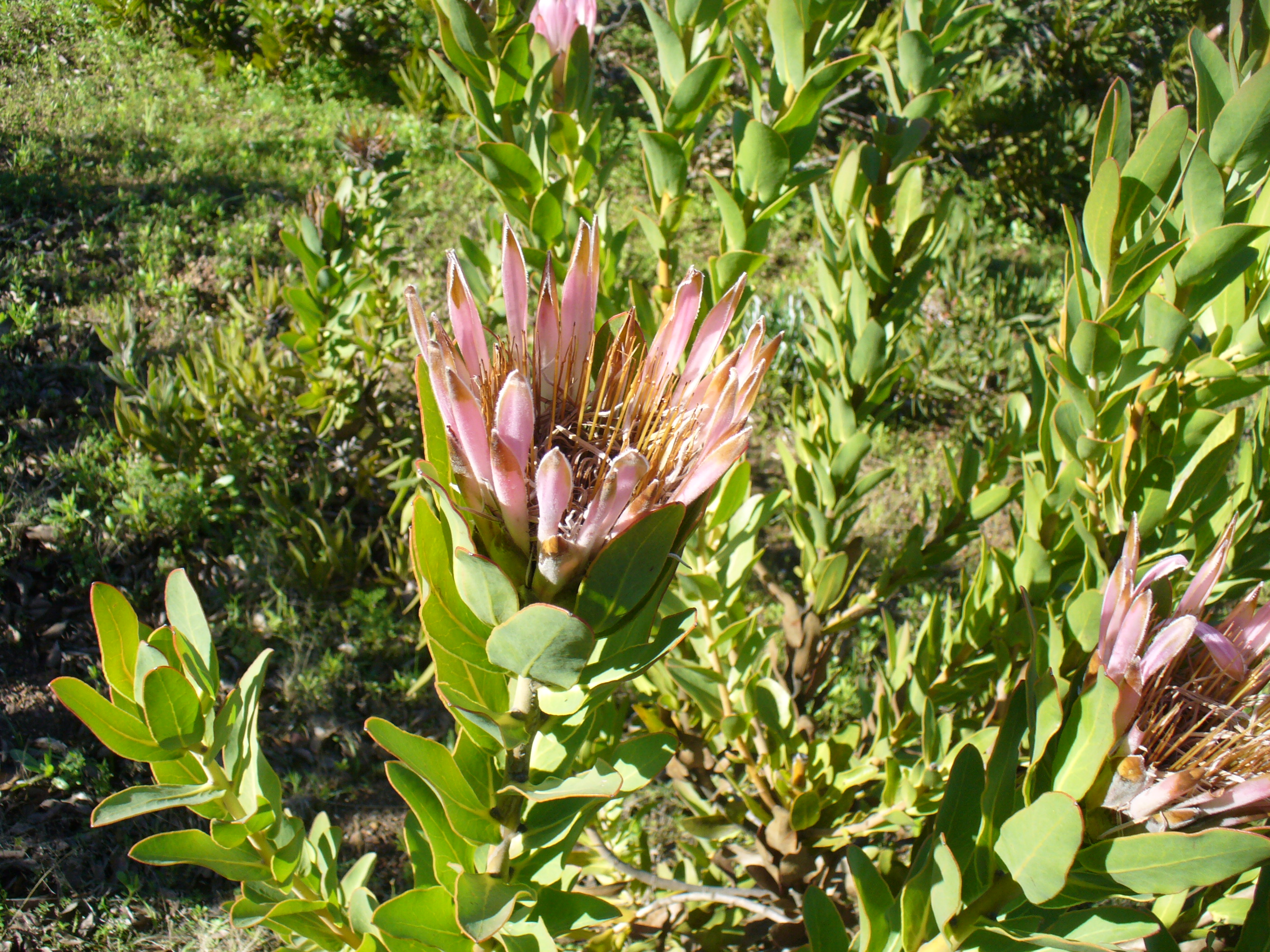 Showing collapsed involucral bracts. Caledon Western Cape.